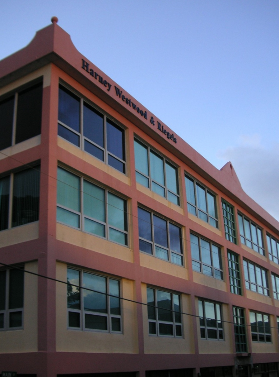 Photograph of main offices of Harney Westwood & Riegels on Main Street, Road Town, Tortola, British Virgin Islands